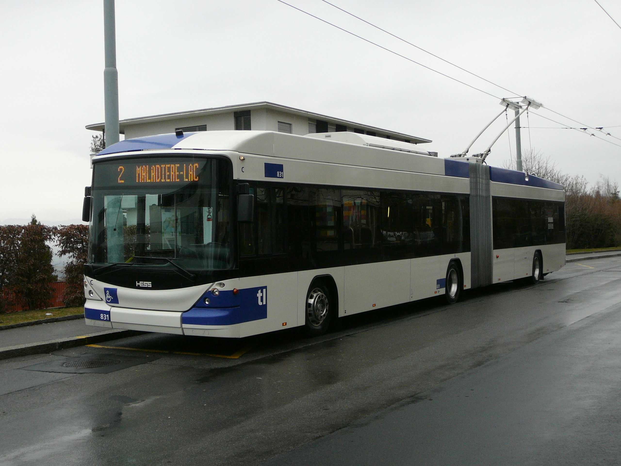 New trolleybus Swisstrolley3 Hess at Desert station on line 2.